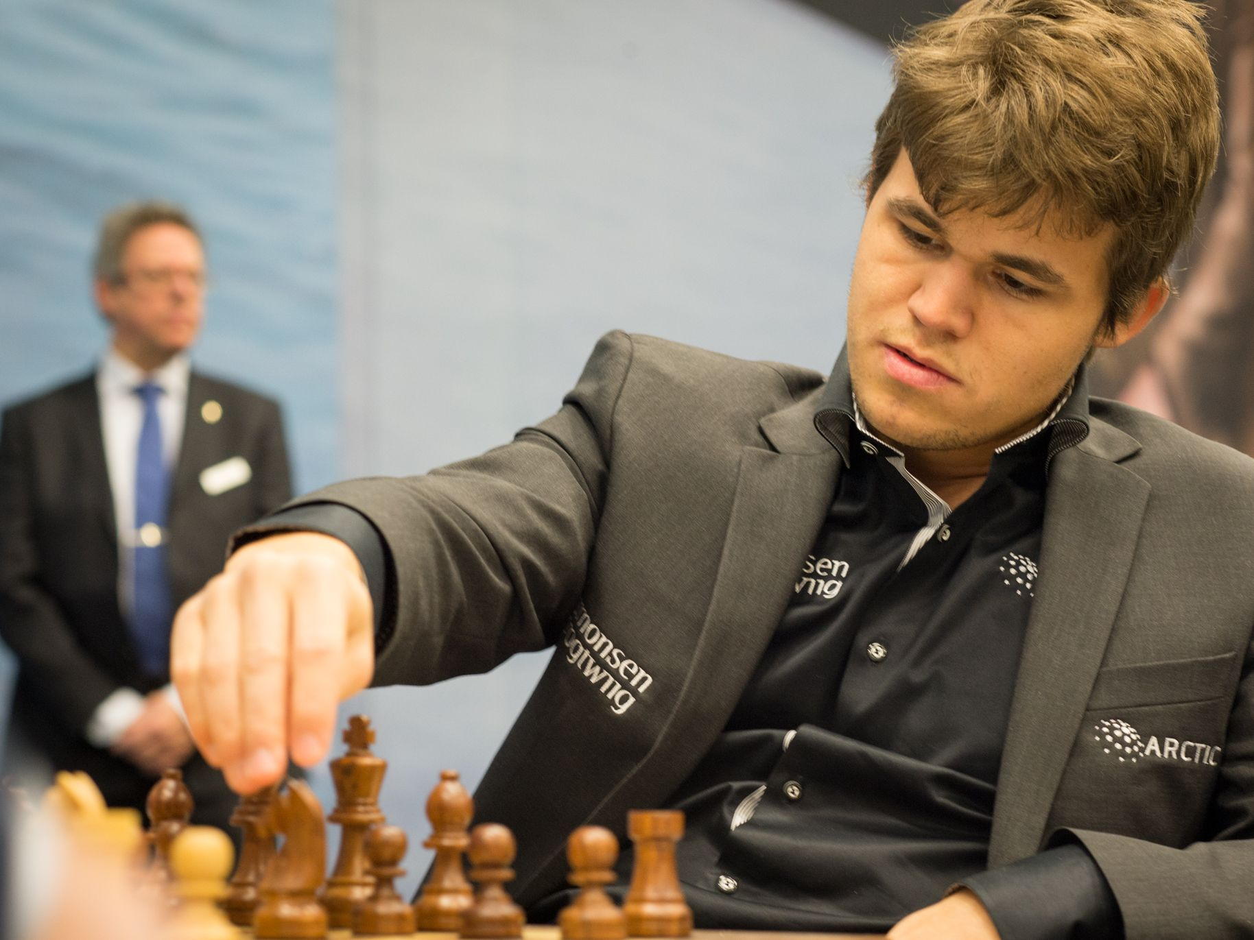 From beauty to brains, Magnus Carlsen, the recently crowned World Chess Champion, will play 20 different games against 20 different players simultaneously. SEE MORE: CES 2014 Celebrity Watch: Early Edition Tim Tebow, Magnus Carlsen, Fleetwood Mac, pro wrestlers and gold medalists among celebs confirmed for Consumer Electronics Show.